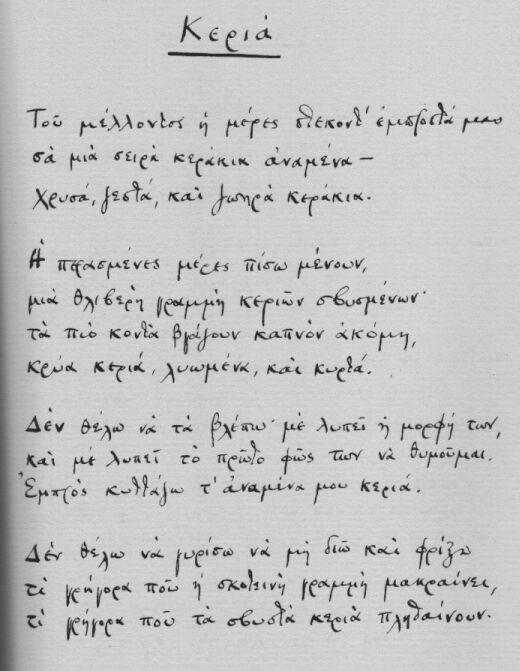 The manuscript of the poem "Keriá", Constantine P. Cavafy